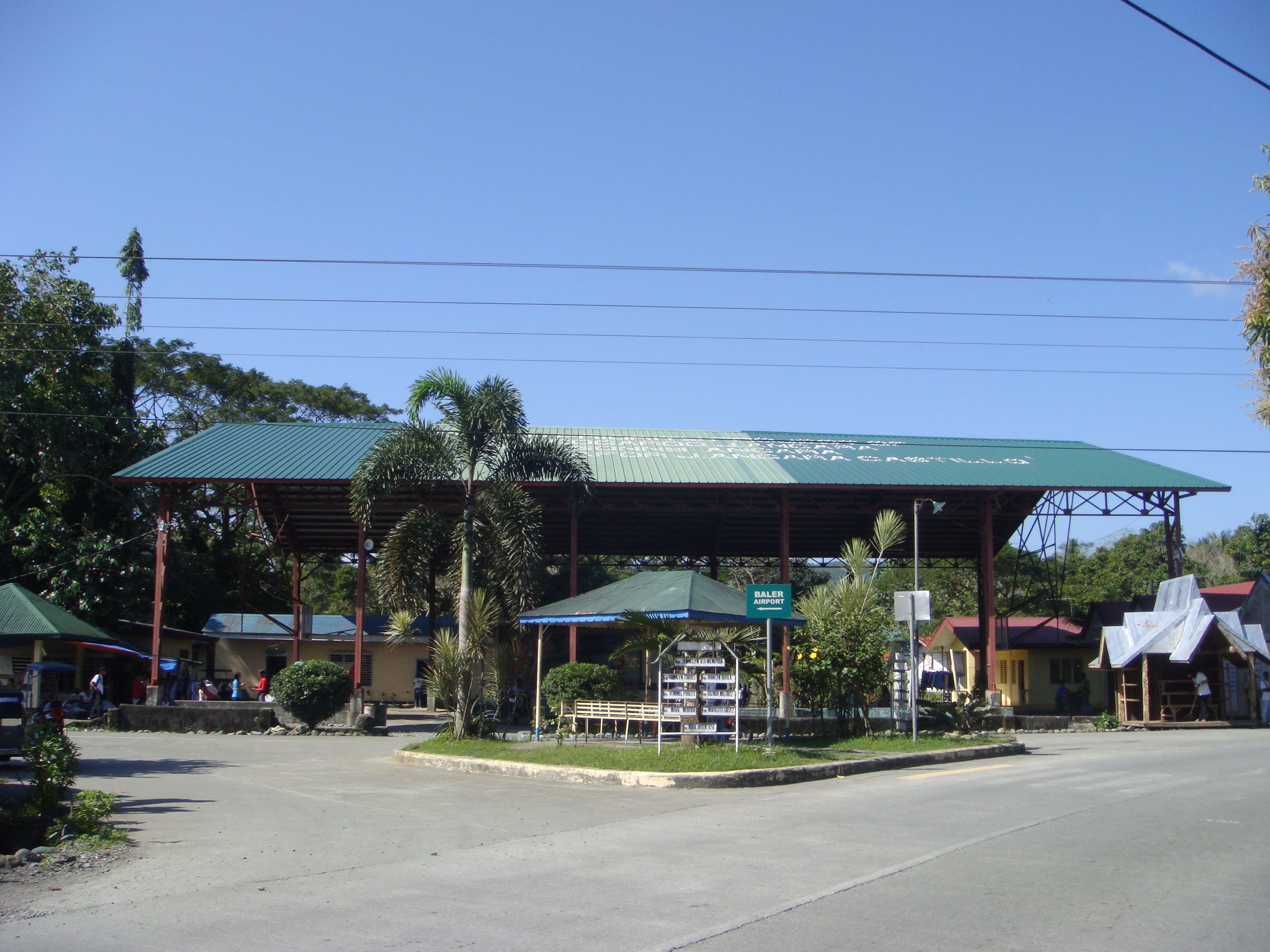 Covered courts and junction, San Isidro, San Luis, Aurora